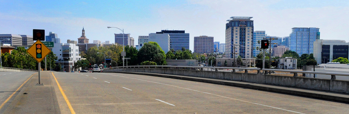 Downtown San Jose skyline, close up, shot on Market St. in 2010. Reuploaded under the free license for Wiki's benefit.